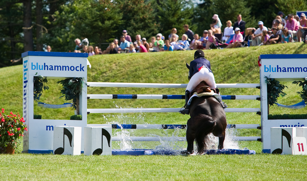 Fidelity Jumper Classic Hampton Falls, New Hampshire